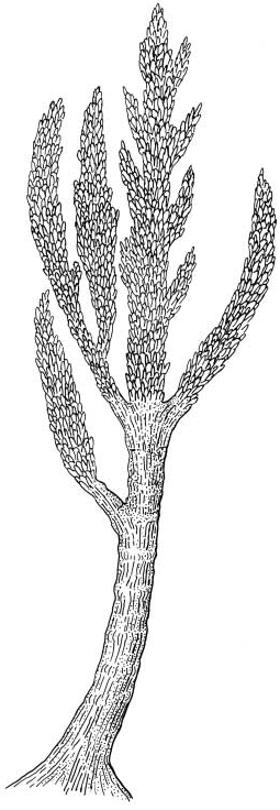 Prototaxites, as reconstructed by Dawson, 1888